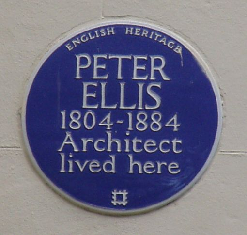 Peter Ellis Plaque at 40 Falkner Square Canning Liverpool